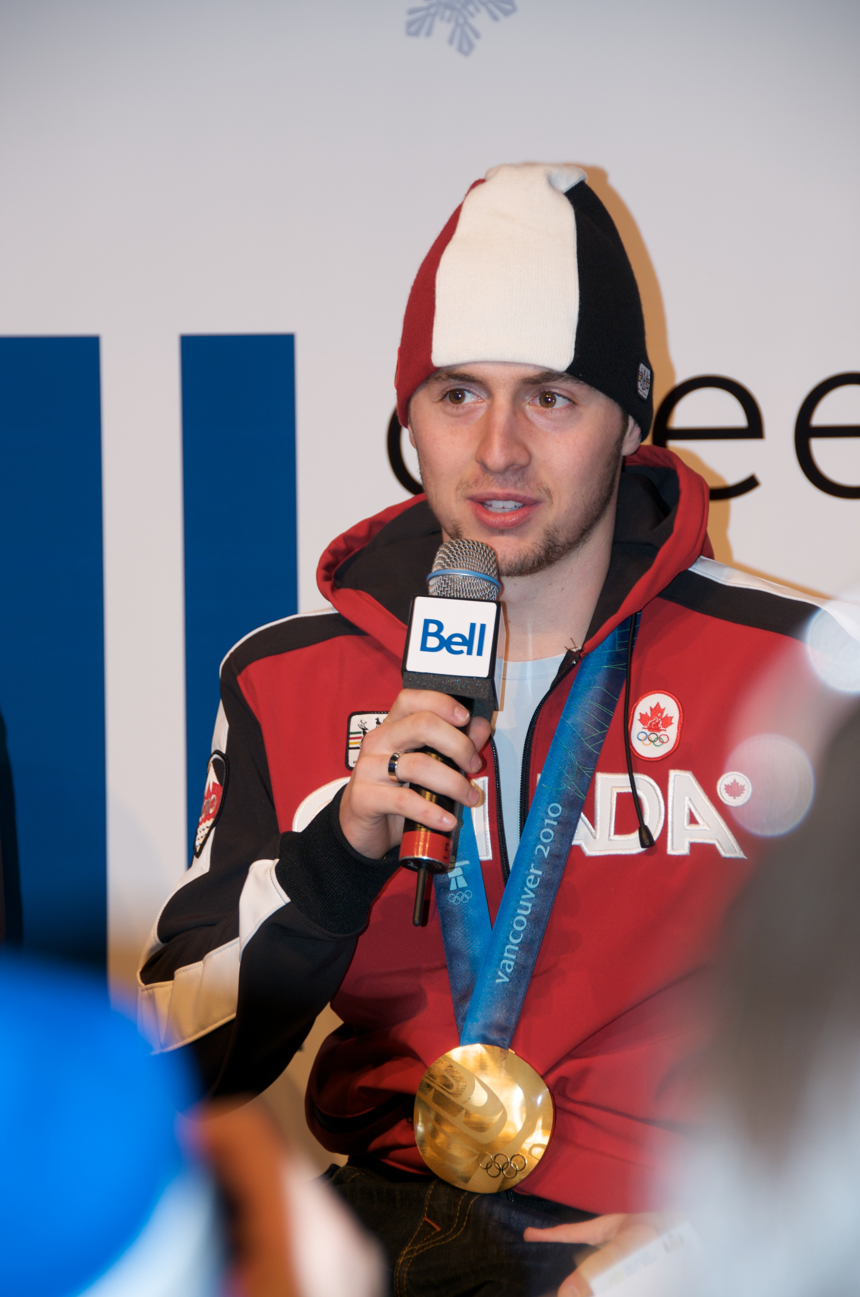 Alexandre Bilodeau with gold medal